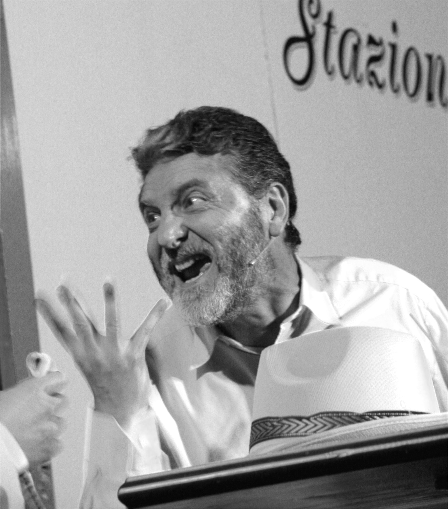 Stefano Saccotelli in "The Man with the Flower in His Mouth" by Luigi Pirandello (2009).